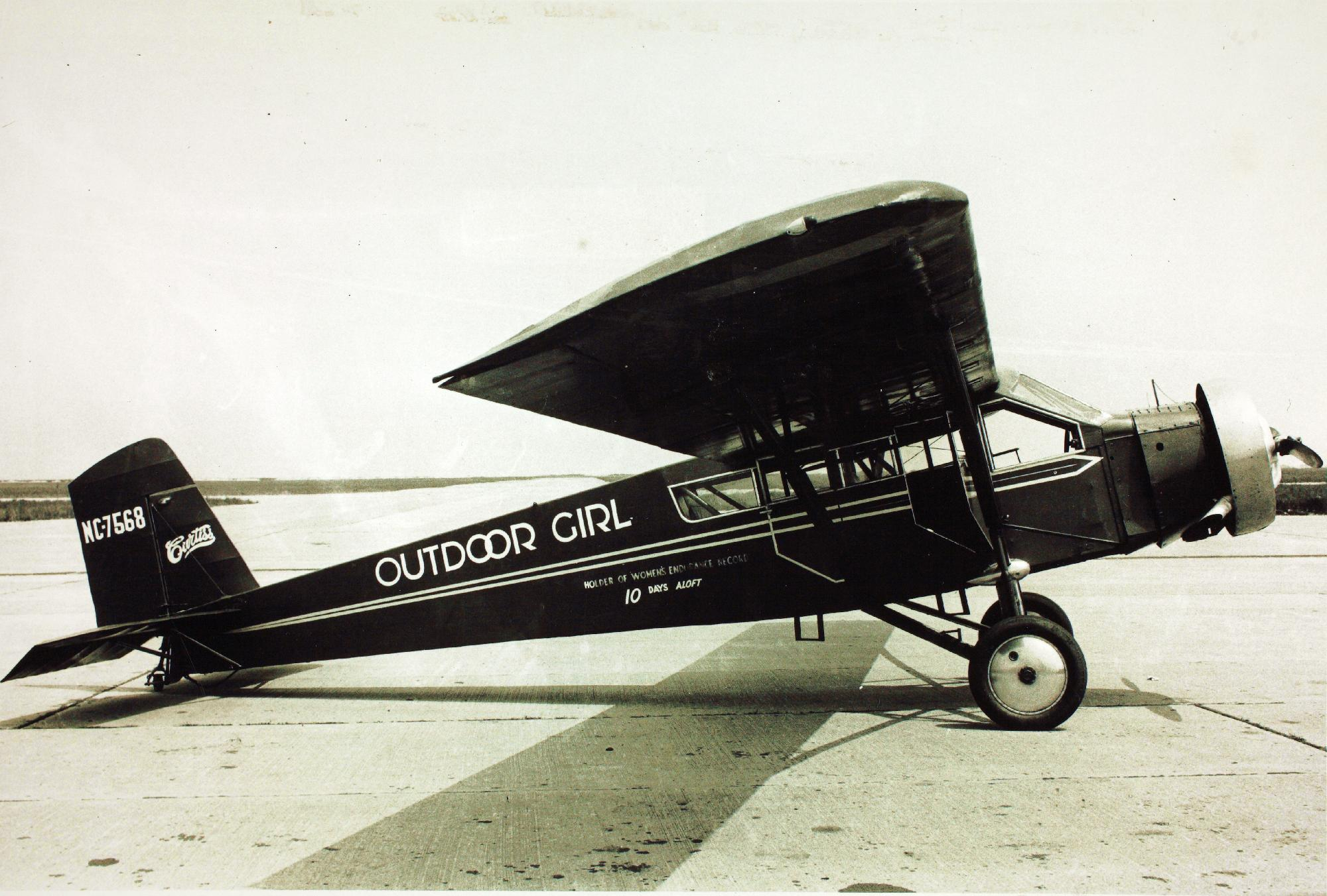 Curtiss Thrush J "Outdoor Girl" (named for a brand of cosmetics) after record flight by Helen Richey and Frances Marsalis of 237 hours, 42 minutes in 1933.